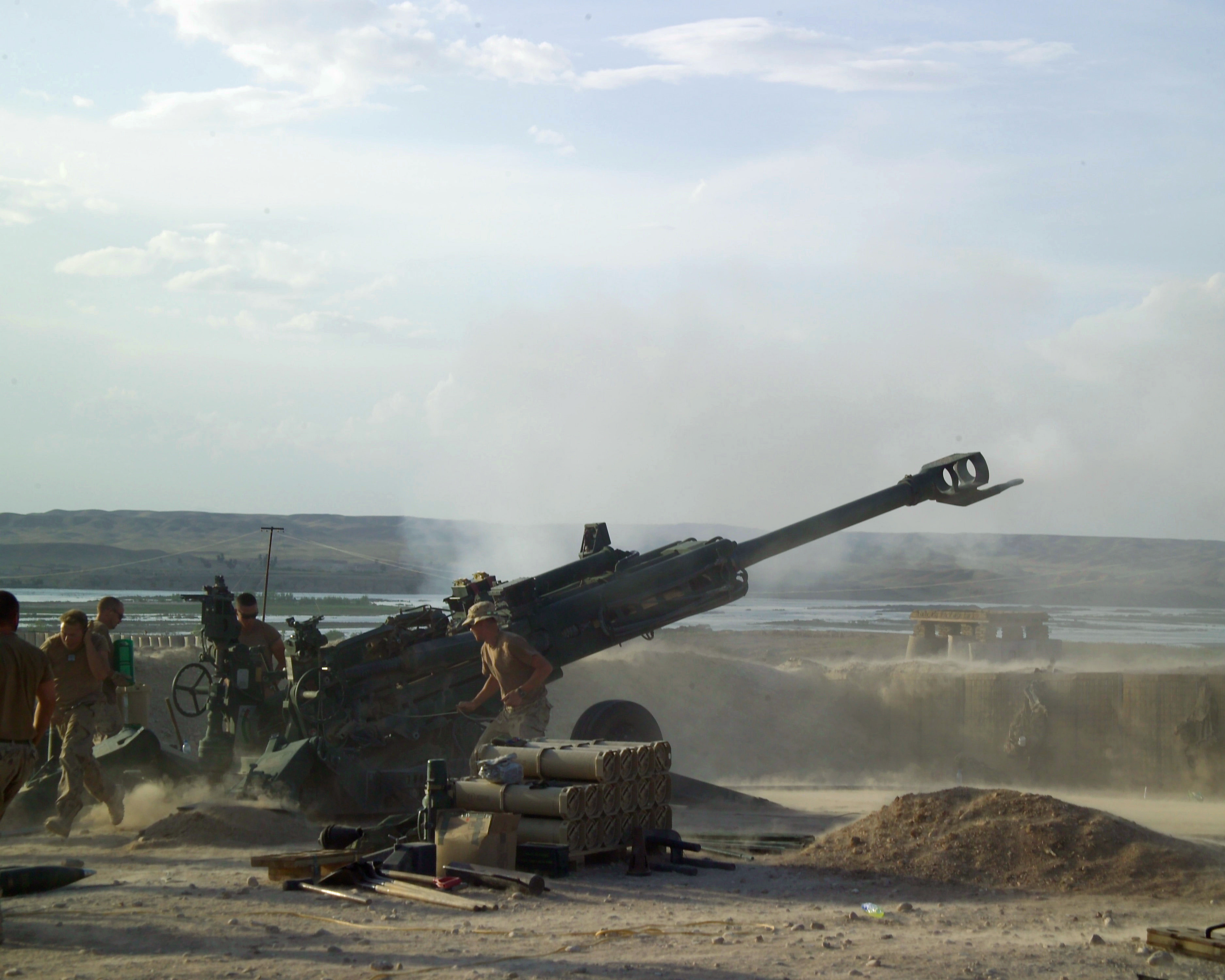 Canadian soldiers fire an M777 155mm Howitzer field artillery gun from a forward operating base in the Helmand Province of Afghanistan April 7, 2007. (U.S. Army photo by Spc. Keith D. Henning)